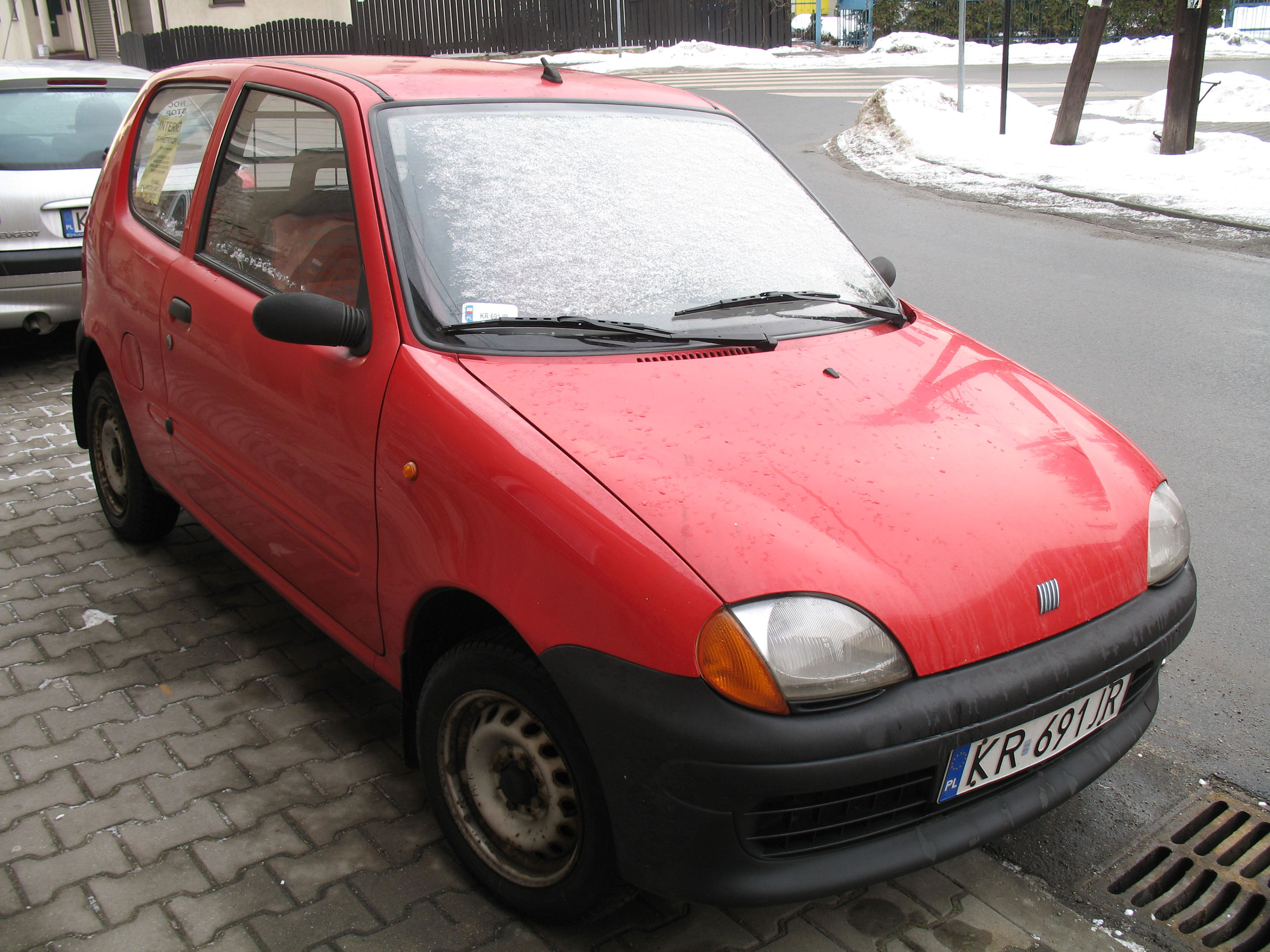 Red Fiat Seicento Van in Kraków, Poland.